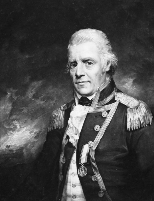 Admiral Sir Henry D'Esterre Darby Painting by Sir William Beechey, 1801